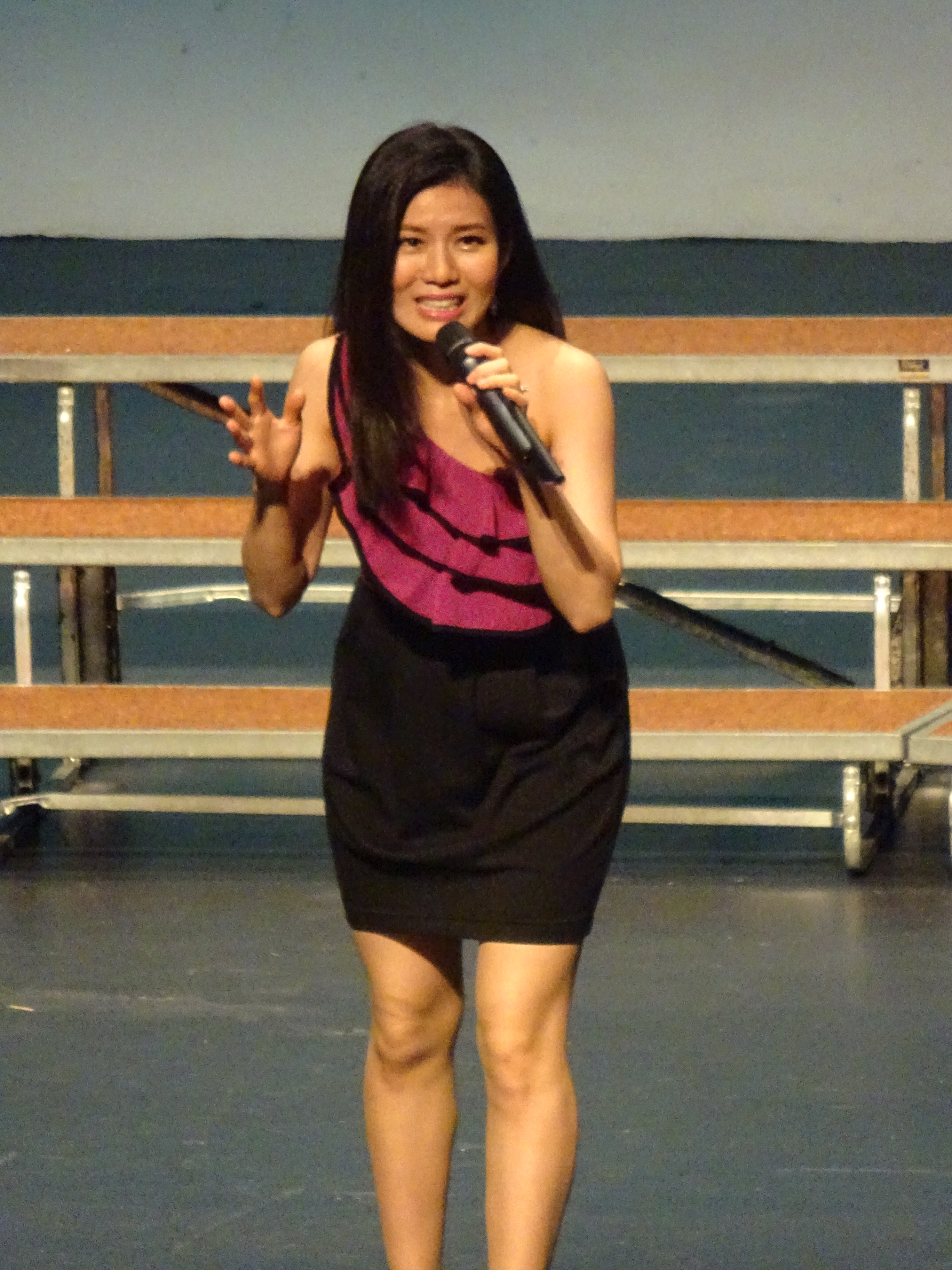 HK SWCC Song Show Ms Meini Cheung 張美妮 in July 2016